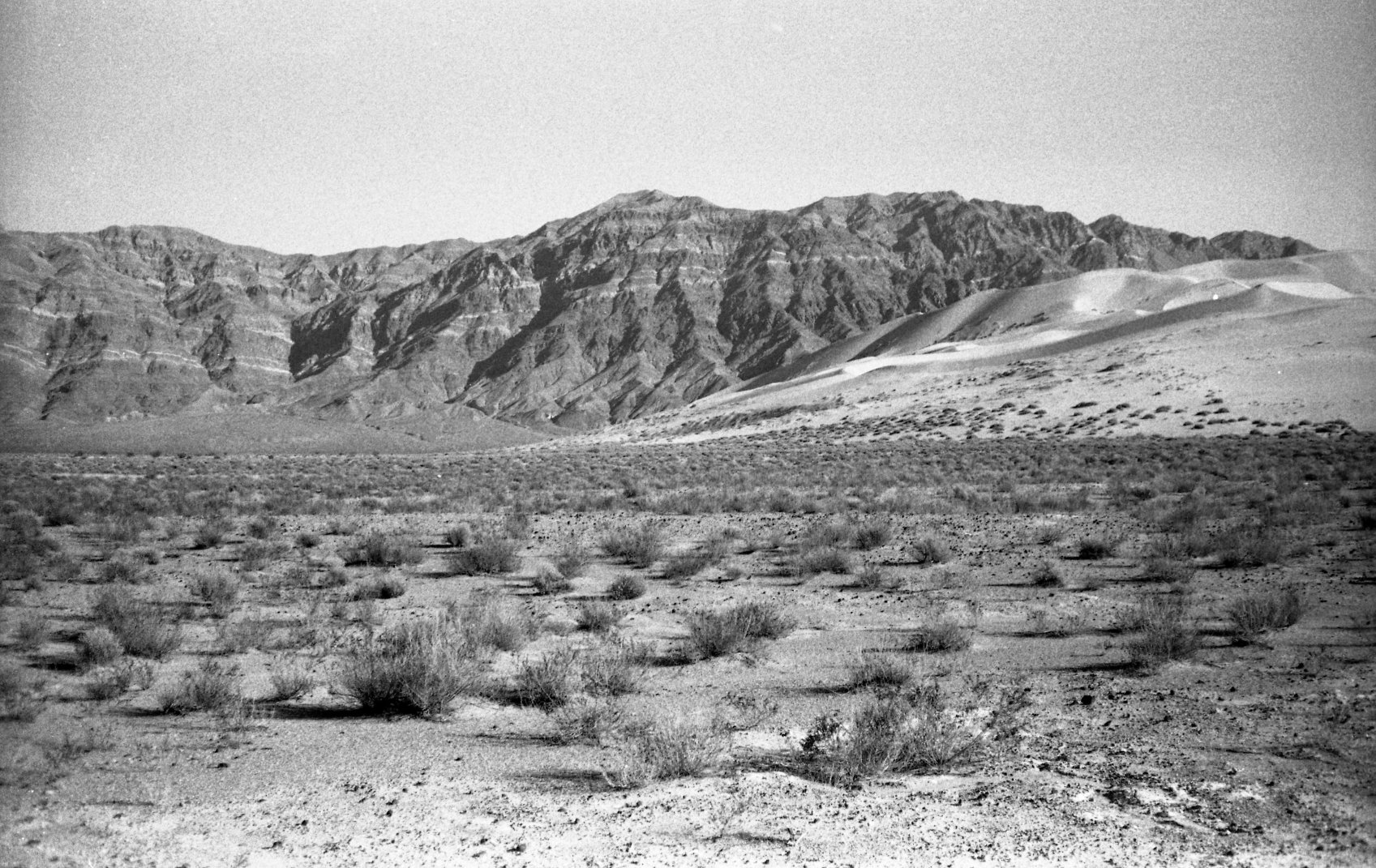 North End of the Last Chance Range as seen from Eureka Dunes